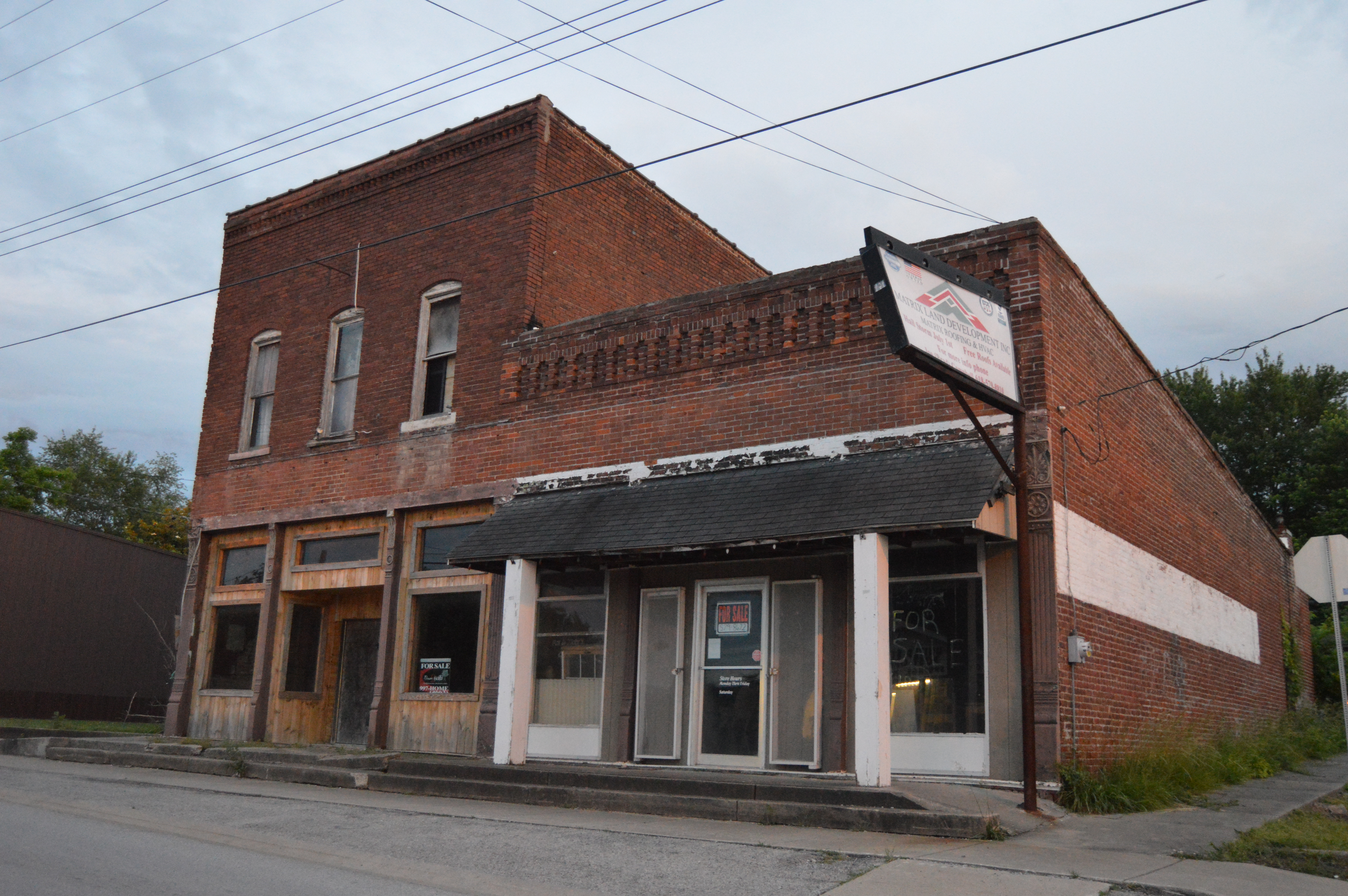 Buildings on the southern side of Blue Avenue (Illinois Route 166) in central Creal Springs, Illinois, United States.